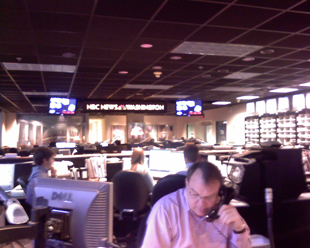 NBC News WashingtonNBC News Washington